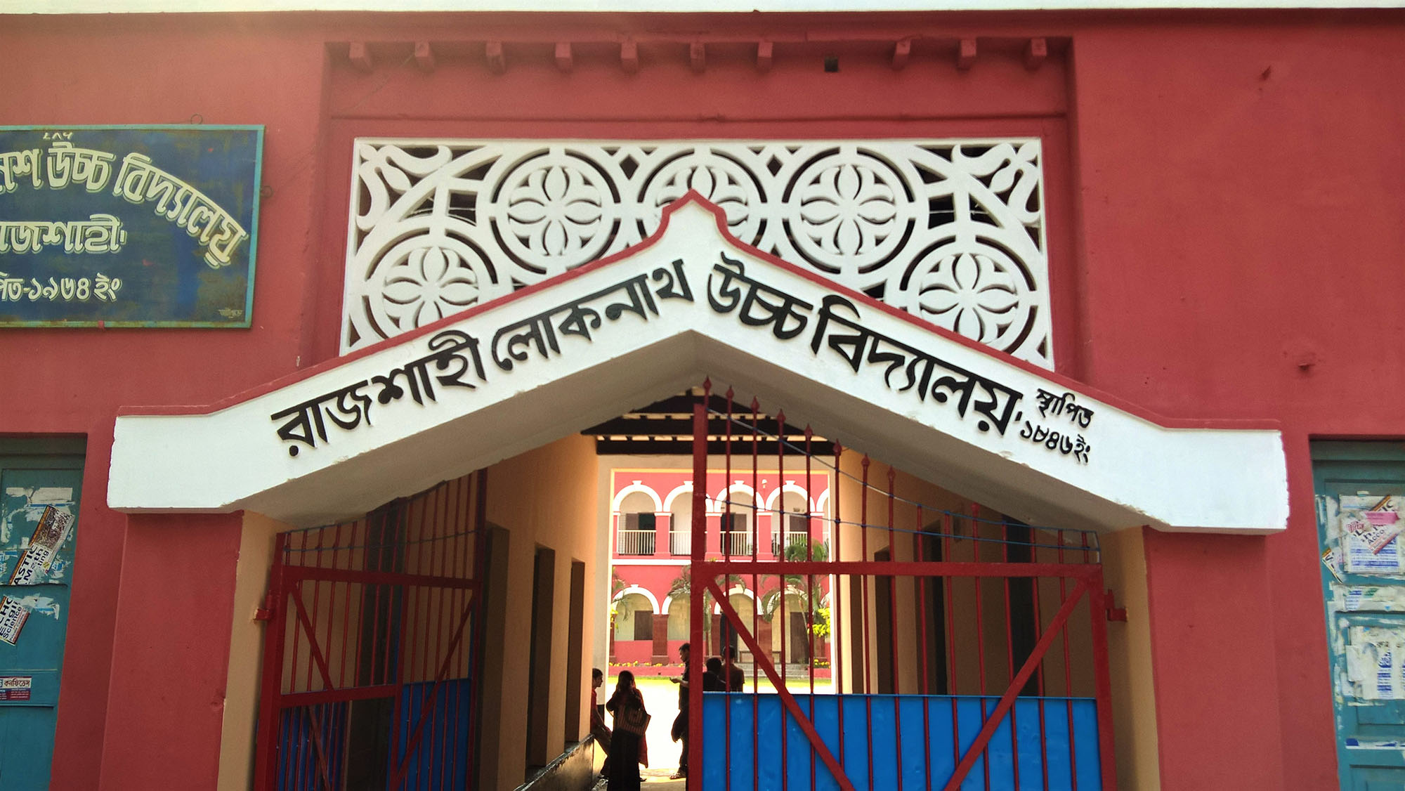 Rajshahi Loknath High School is one of the oldest school in the main town of Rajshahi.